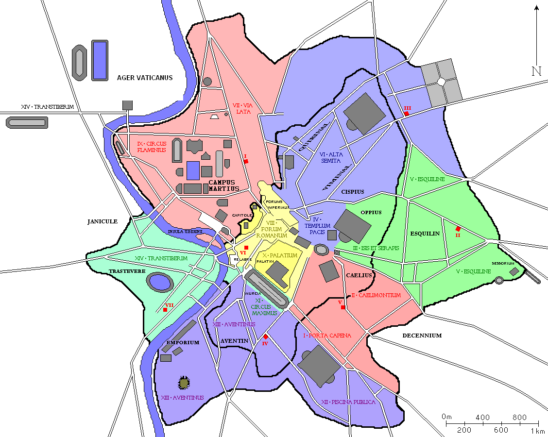 Administrative map of Rome redesigned from various sources. All important buildings built to the end of the Roman Empire as well as the regions of Augustus and the hills of Rome are drawn. In red, seven barracks of cohortes vigilium and their areas of influence.